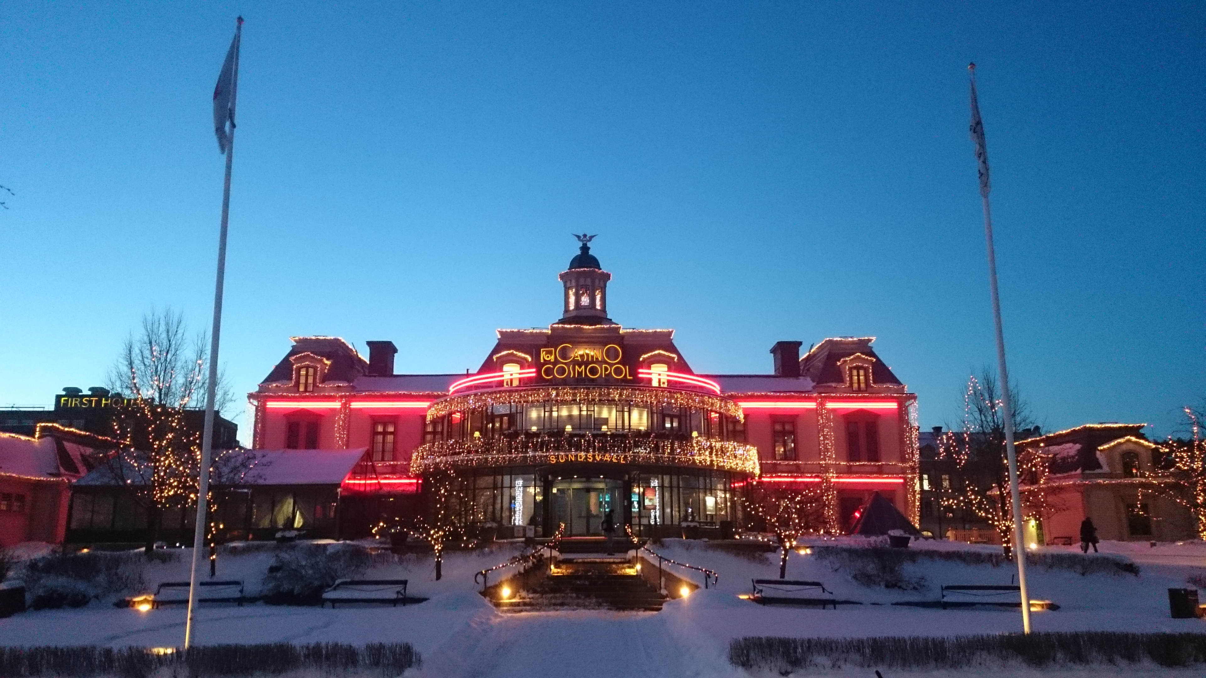 Casino Cosmopol in Sundsvall, Sweden.